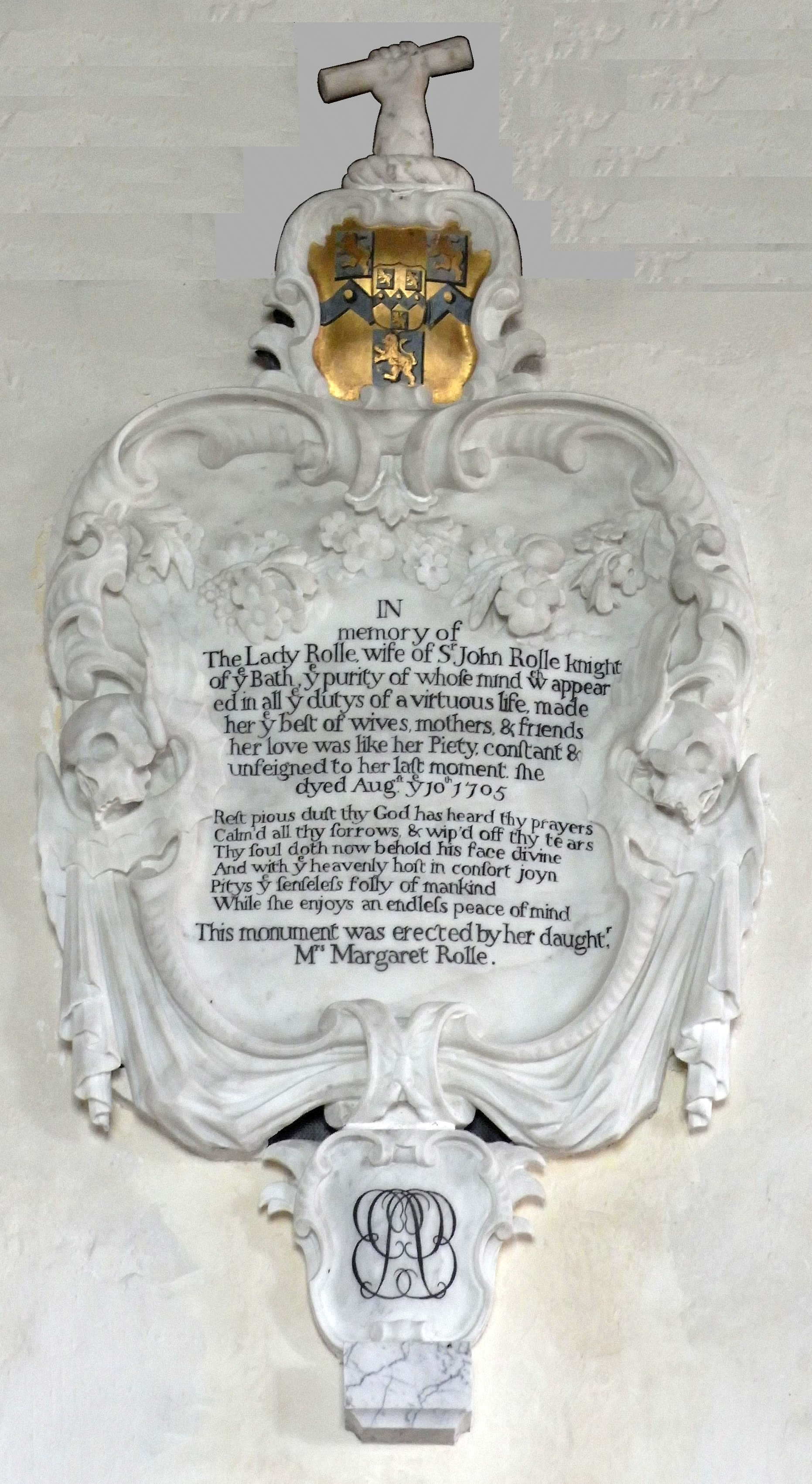 Mural monument to Florence Rolle, Lady Rolle (d.1705), wife of Sir John Rolle (d.1706). Tawstock Church, Devon. By Thomas Jewell of Barnstaple (Pevsner, Nikolaus & Cherry, Bridget, The Buildings of England: Devon, London, 2004, p.790). Mural monument to Florence Rolle (d.1705), daughter and sole heiress of Denys Rolle (1614-1638) of Stevenstone, Devon, and wife of Sir John Rolle (d.1706) of Marhayes, Cornwall. Tawstock Church, Devon. The arms are Rolle of Marhayes with inescutcheon of pretence of Rolle of Stevenstone.